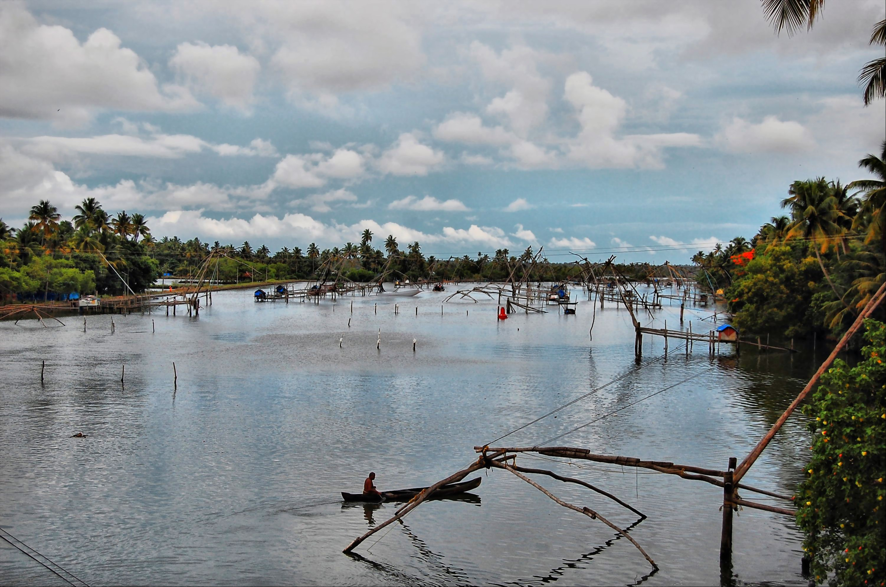 Cherai is a small coastal town in the Ernakulam district of Kerala, south India. It is about 30 km from Ernakulam. Cherai which is a part of the greater Vypin Island came into existence as a result of the great flooding of 1341. Cherai is home to a picturesque beach - Cherai beach. this scene is from the inner parts of Cherai where 100s of Chinese fishing nets are installed